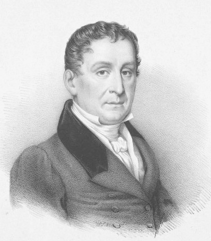 English pianist and composer Johann Baptist Cramer (1771-1858) "drawn from Life & on Stone" by William Sharp (1749-1824).